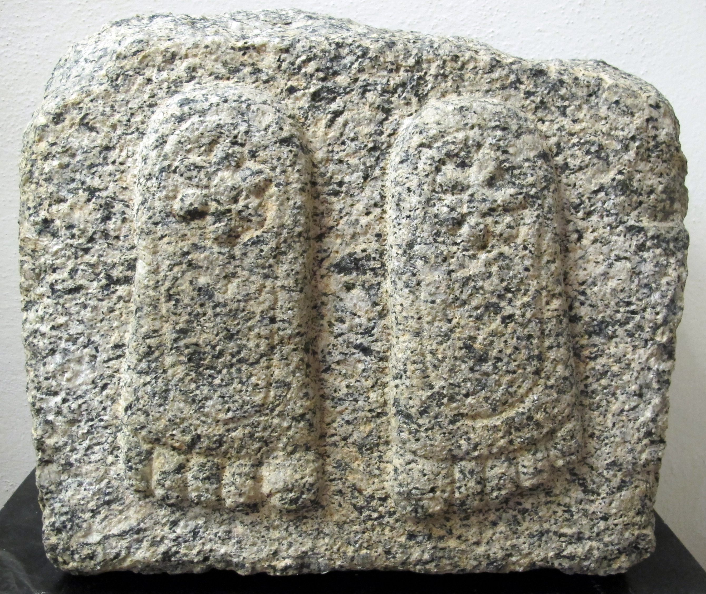 Museo di storia naturale (Florence) - Anthropology and Ethnography section - India